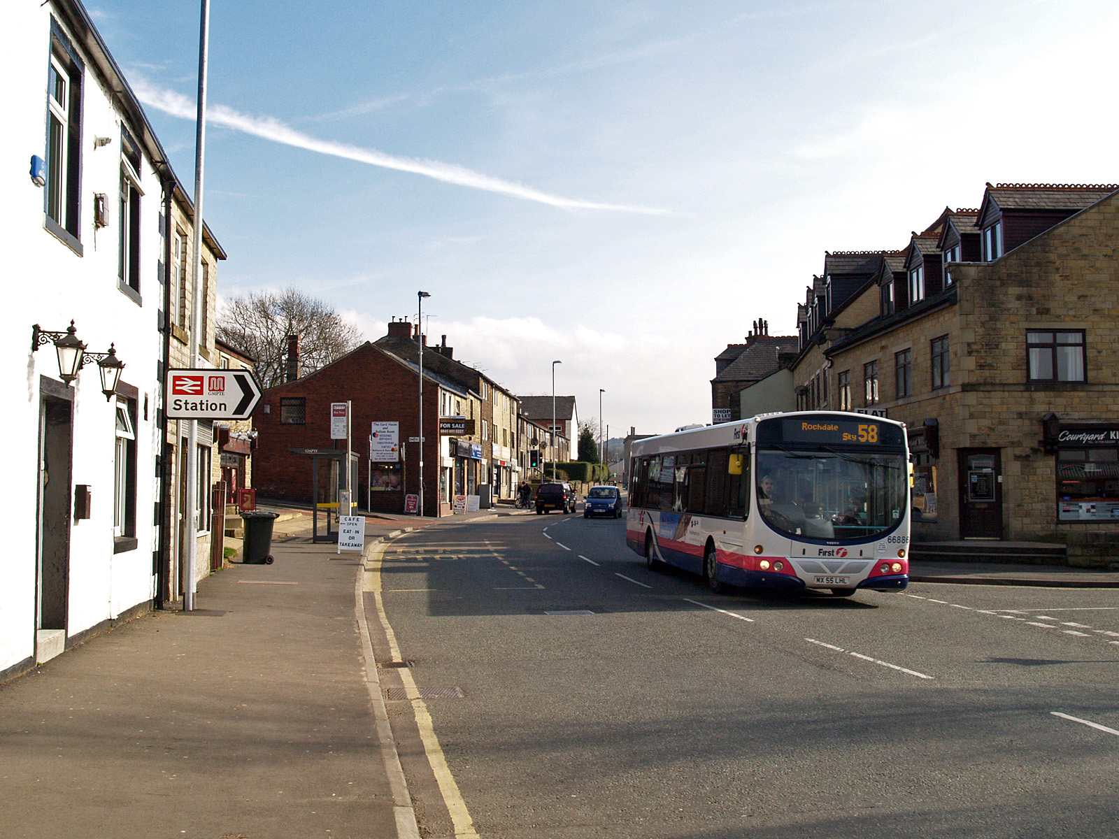 A view of Dale Street in Milnrow, Greater Manchester, England. The bus is a First Manchester Limited 66886 MX 55 LHL, a Volvo B7RLE built 2005 with a Wright ‘Eclipse Urban’ B43F body.